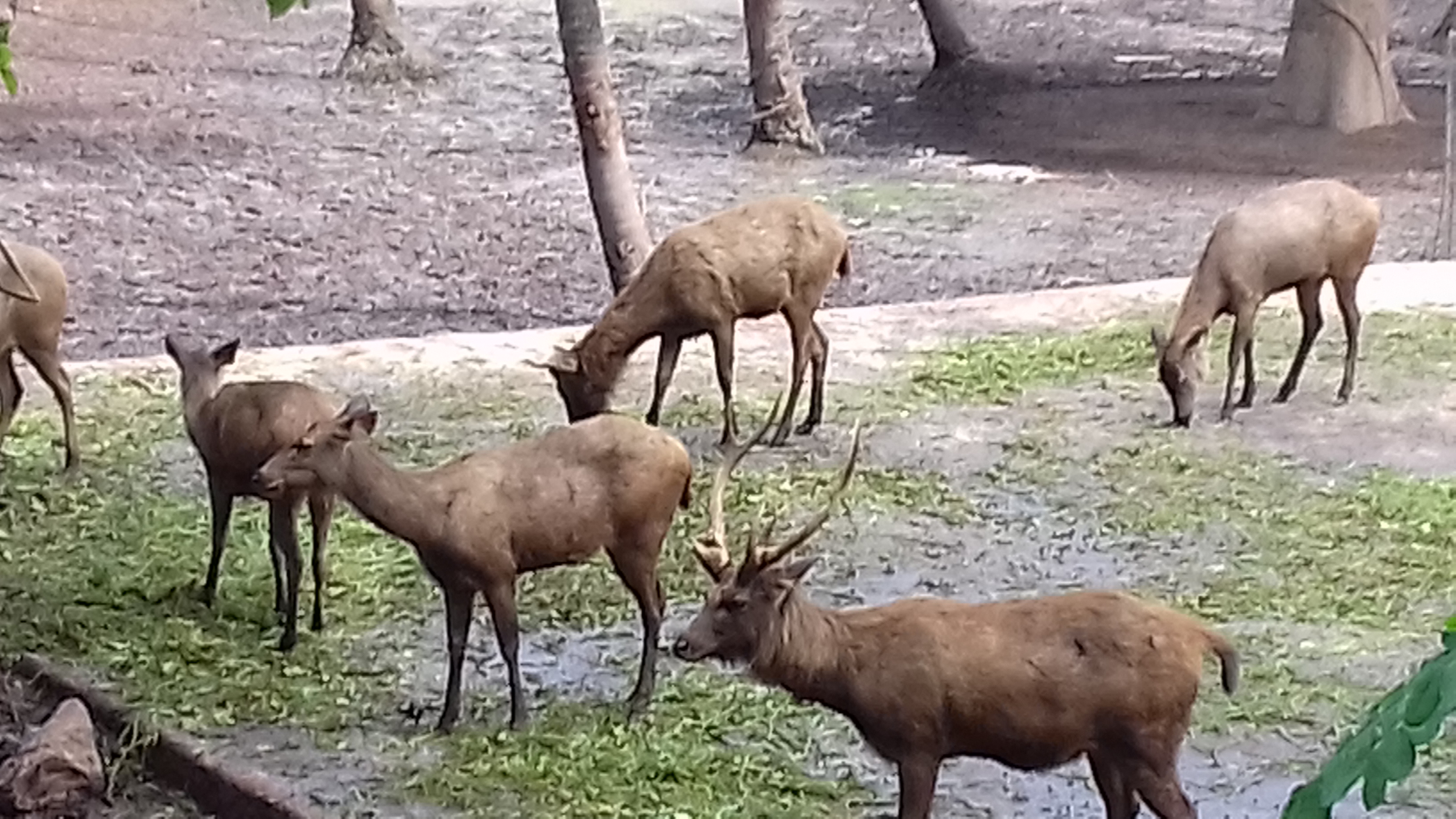 Herd of Deers in Thiruvananthapuram Zoo